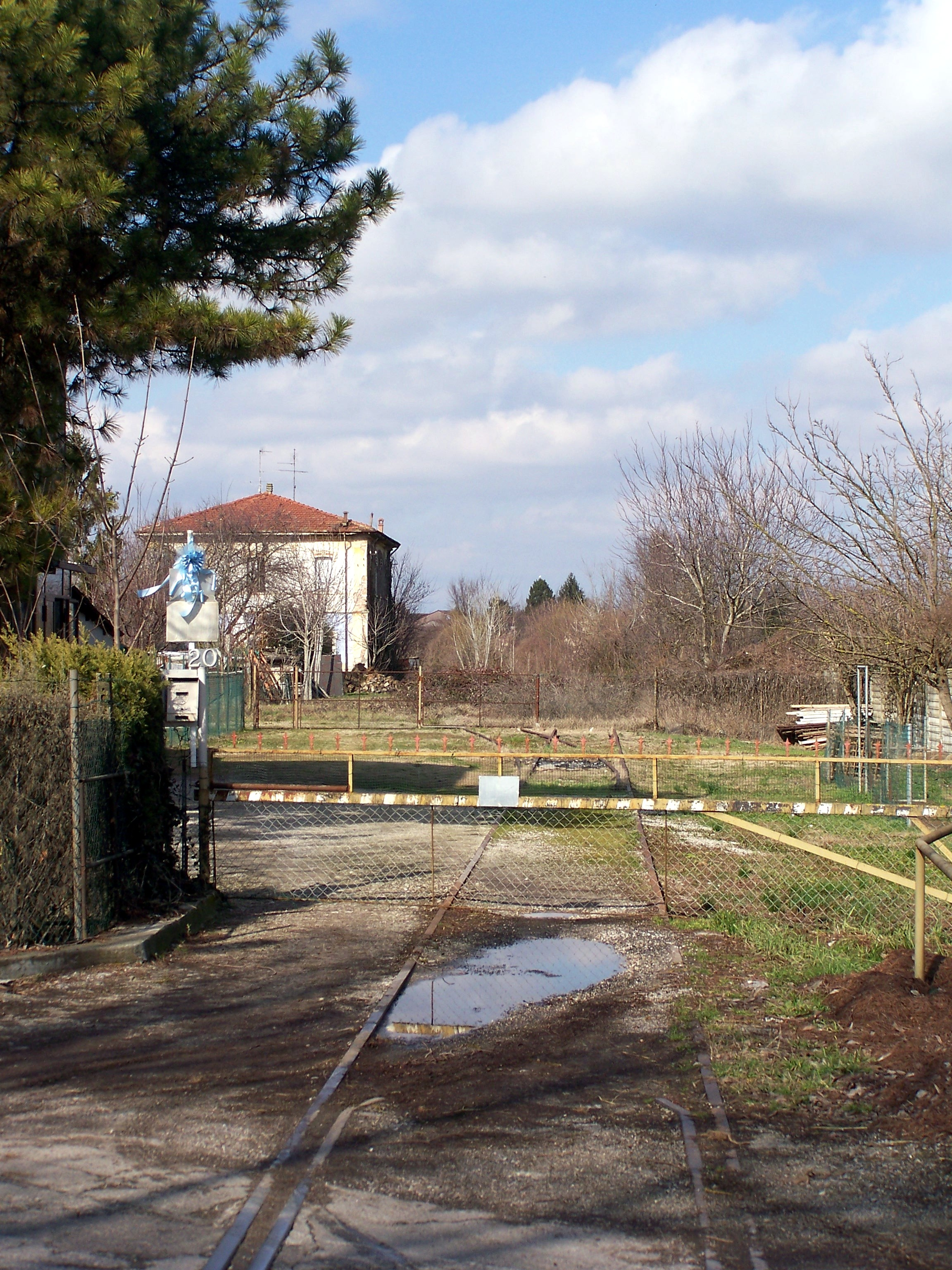 Disused tracks of Marmirolo train station.